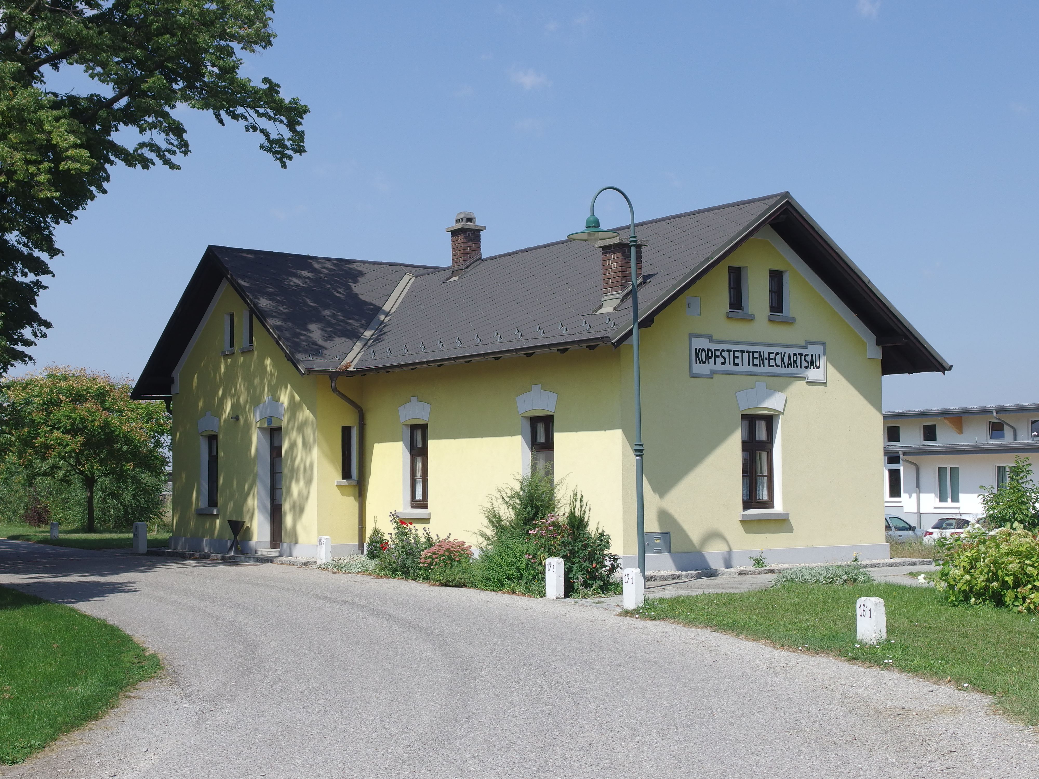 Former station Building of Kopfstetten-Eckartsau, Siebenbrunn-Leopoldsdorf – Engelhartstetten branchline